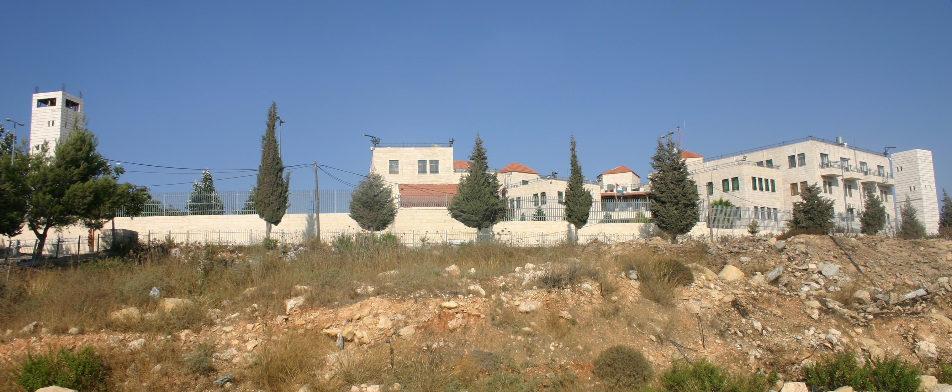 Headquarter of the Palestiian Preventive Security in Beitunia